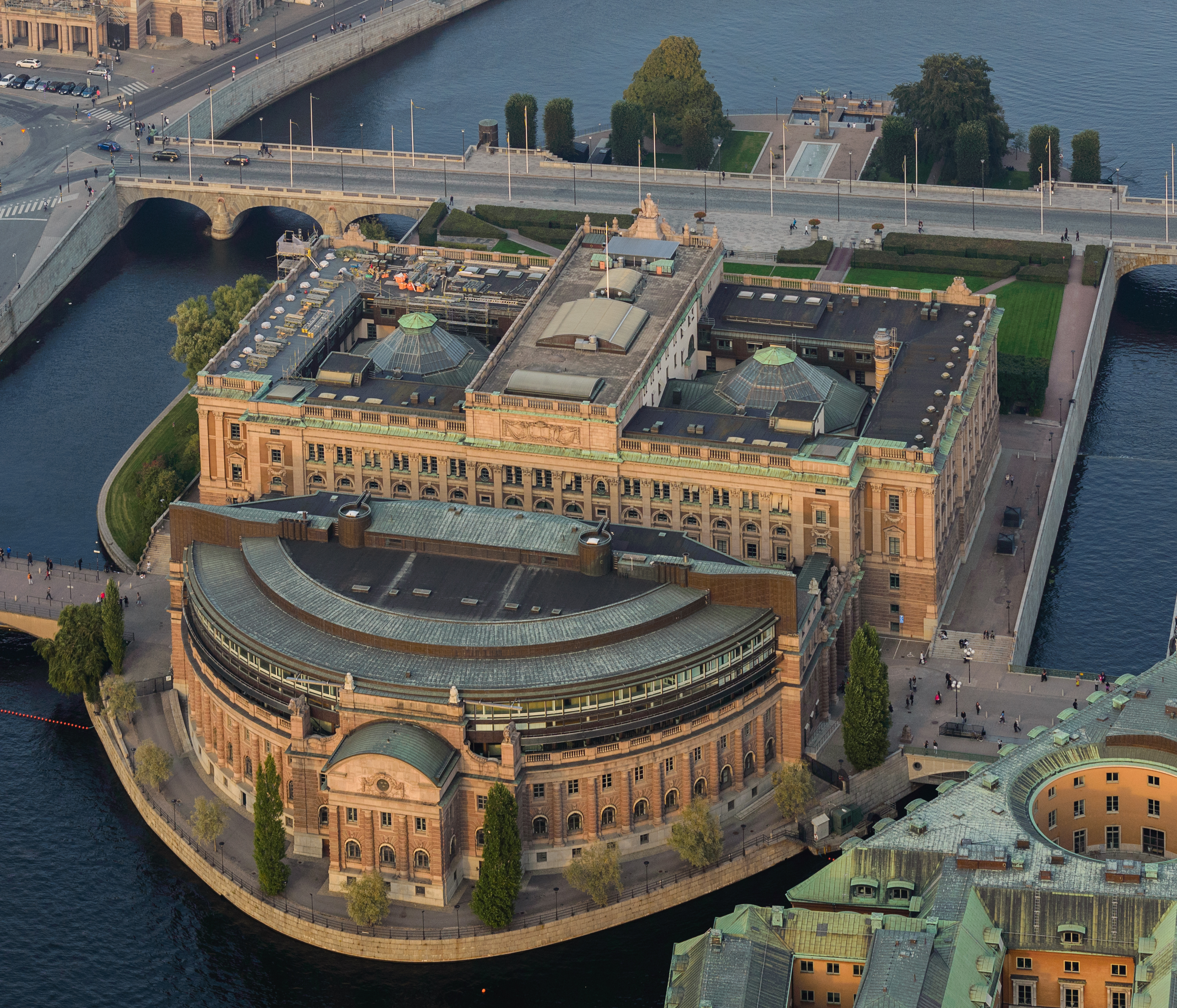 Sveriges riksdag (house of parlament).